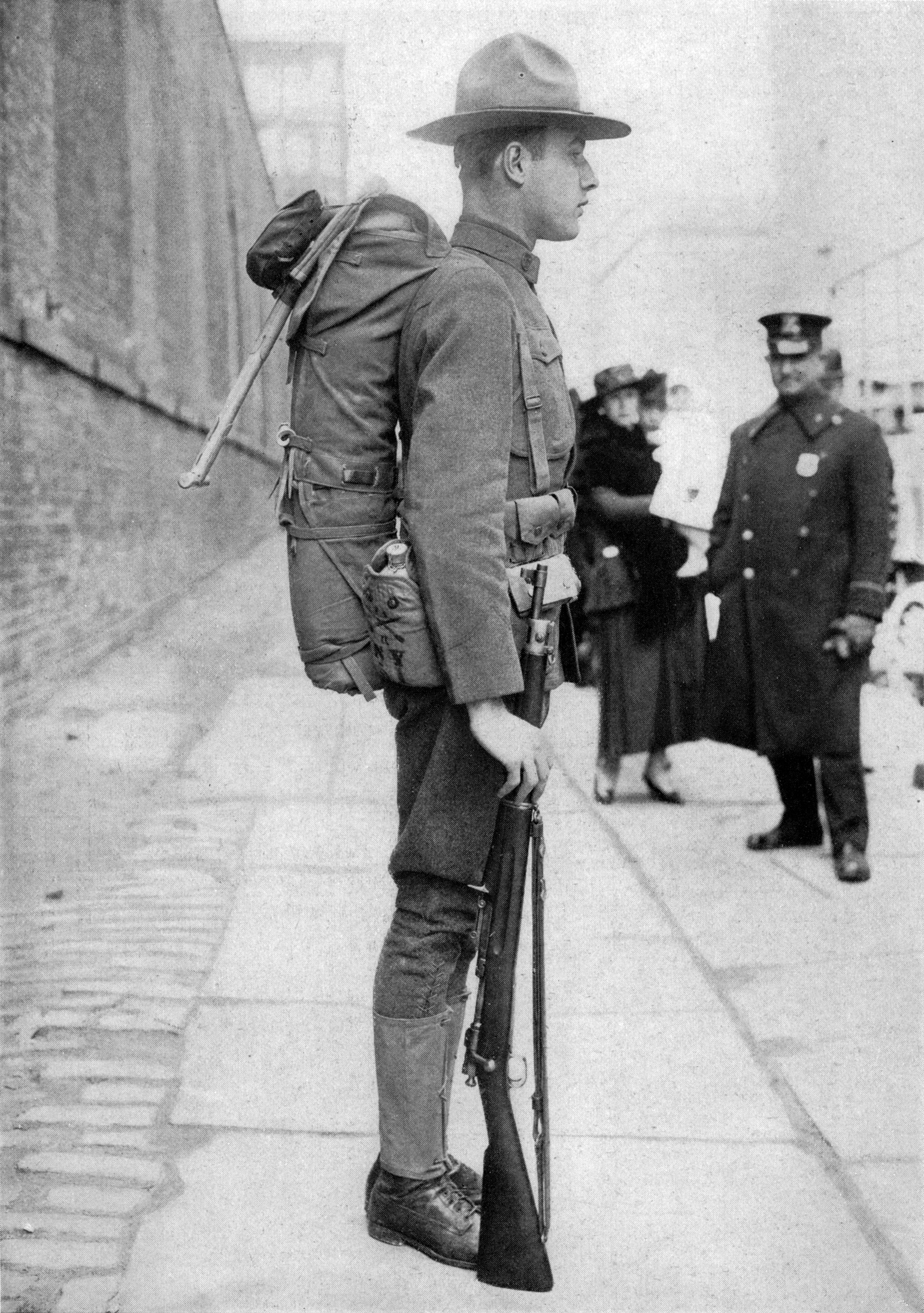 A NATIONAL GUARDSMAN COMPLETELY EQUIPPED FOR SERVICE. On his back this American fighting man carries his blanket roll, small shovel, bat, etc. His canteen is at his belt. He is armed with a .30 caliber U. S. Army rifle. Minimum weight for maximum efficiency is the principle upon which his whole outfit has been designed.